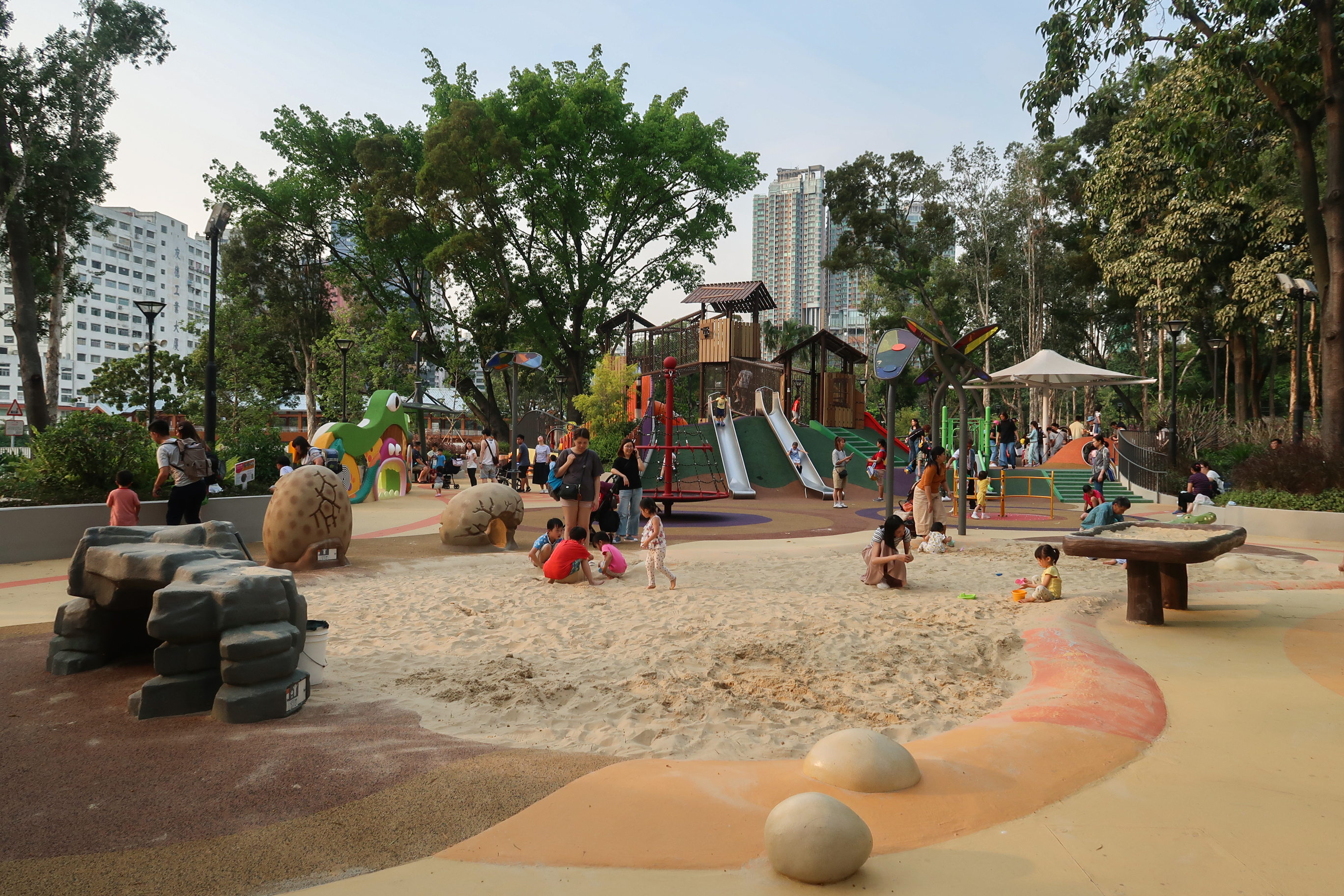 Inclusive playground in Tuen Mun Park Sensory Zone